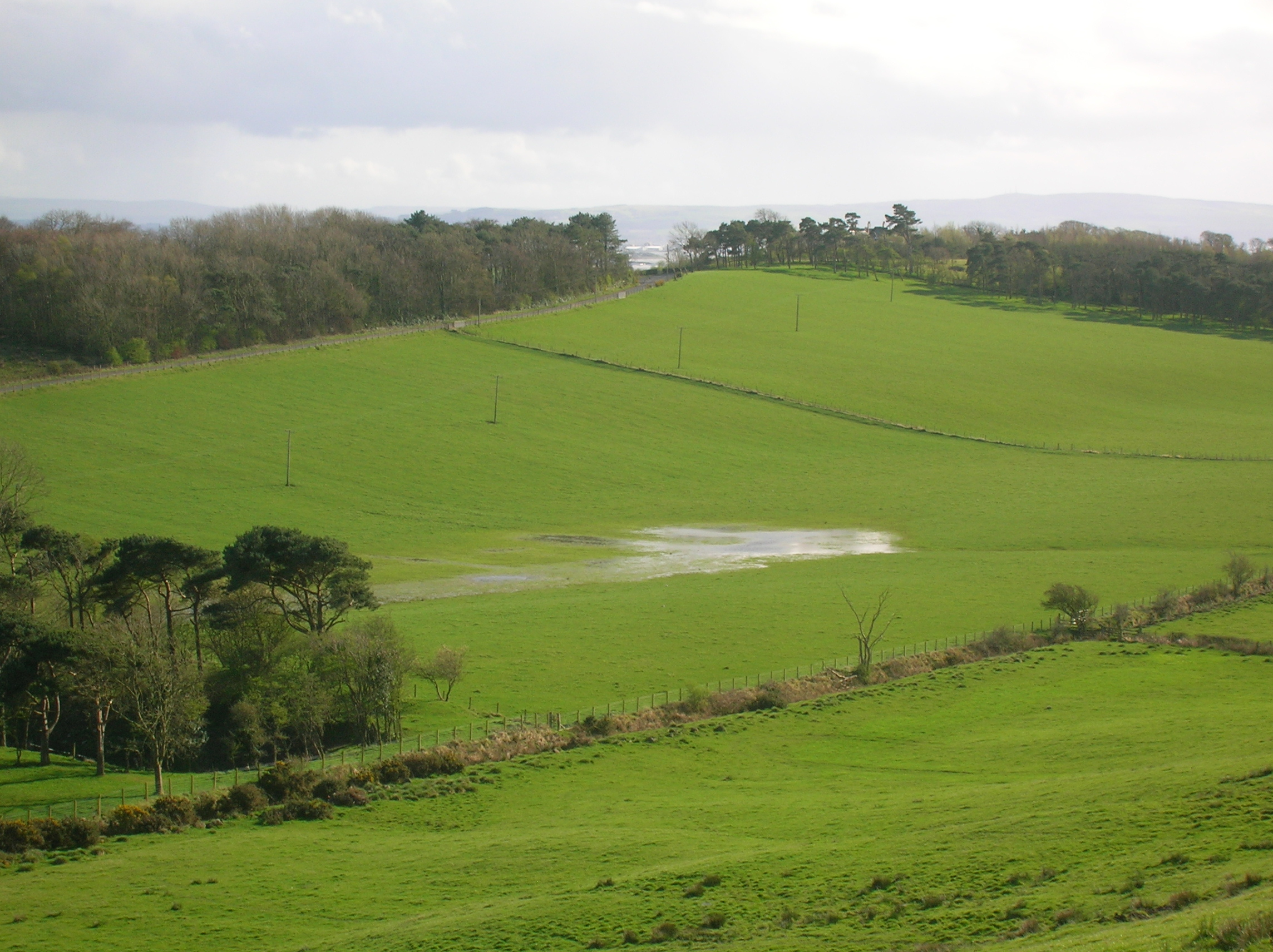 Flooding at the site of the old Clevens Loch near Corraith Quarry, Symington, South Ayrshire, Scotland.